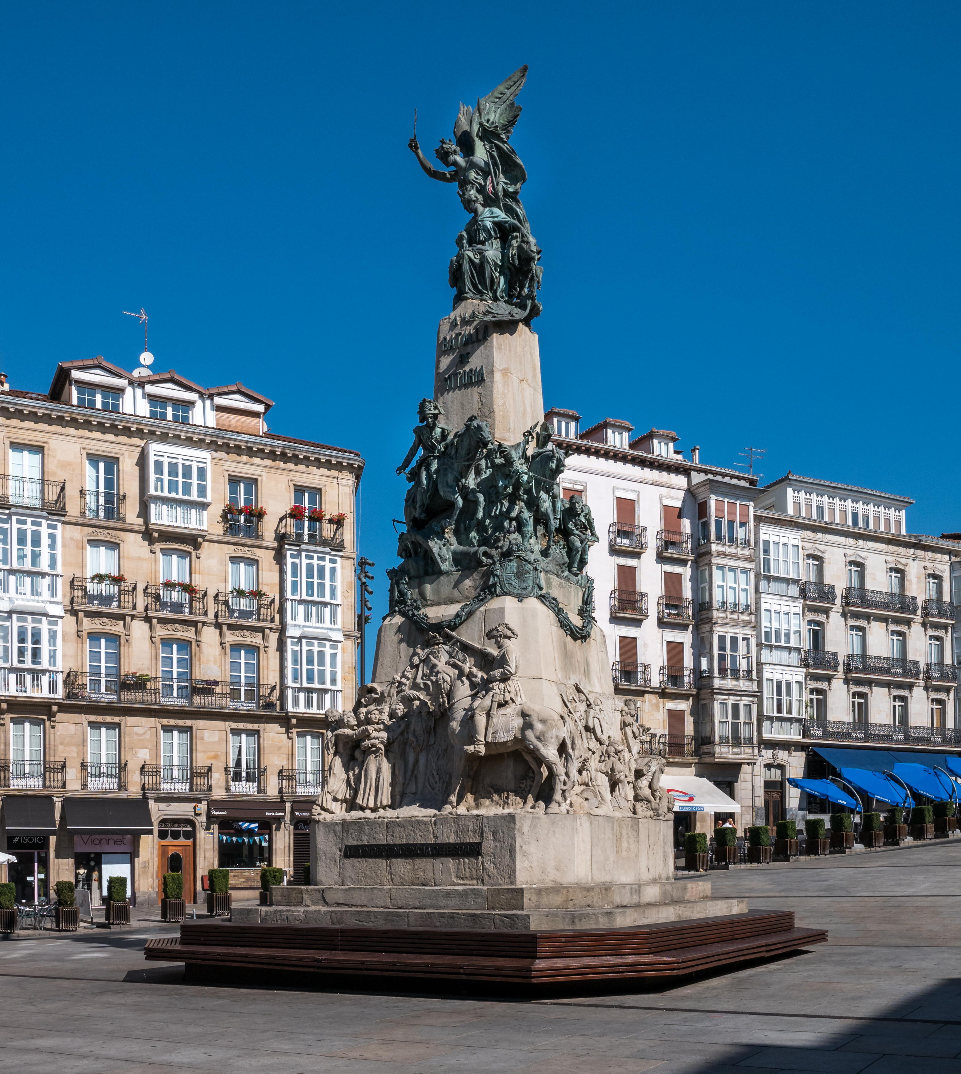 Monument about the Battle of Vitoria 1813 on the Virgen Blanca Square. Vitoria-Gasteiz, Basque Country, Spain